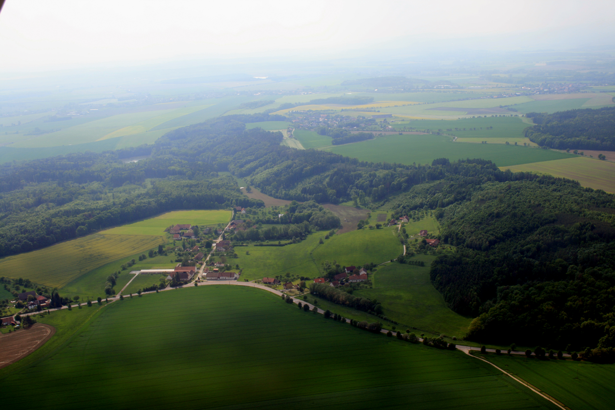 Village Běstviny, officially part of town Dobruška from air, eastern Bohemia, Czech Republic